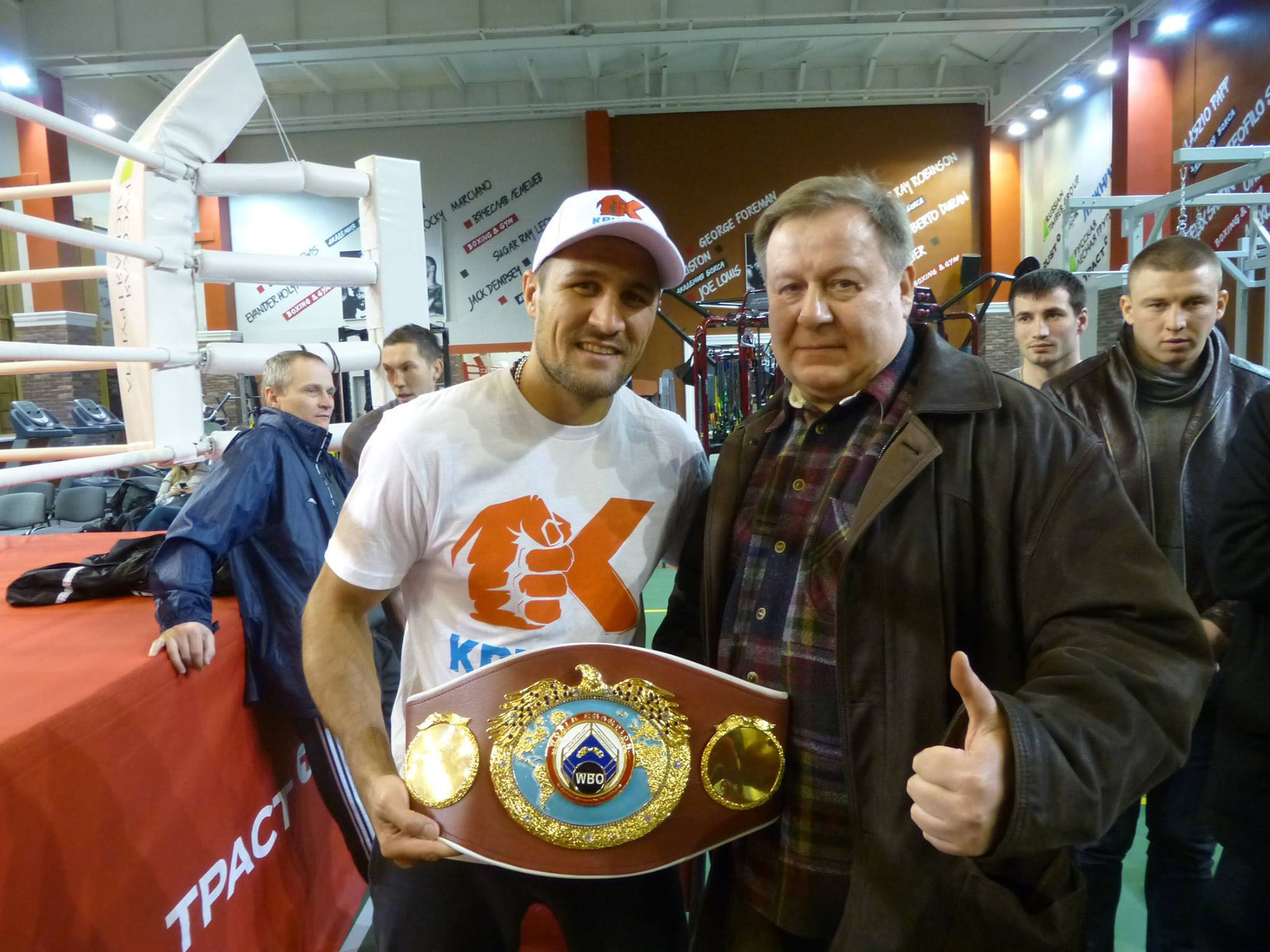 Boxer Sergey Kovalev with fan